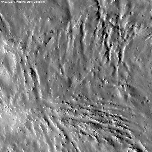 A thin layer of regolith covers fractures around 18 meters wide in the Ohm crater impact melt pond. LROC Narrow Angle Camera (NAC) observation M166582212R, orbit 9683, July 29, 2011; incidence angle 58.41° at a resolution of 0.63 meters per pixel from 58.48 km, image field of view is 793 meters across.